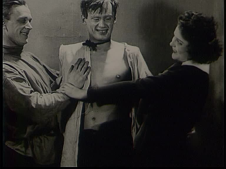 Anna Sten in Boris Barnet's film The Girl with a Hatbox (1927)